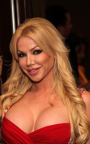 Angie Savage (cropped) Photos from the 2013 AVN Awards held at the at the Hard Rock Hotel & Casino in Las Vegas. Please provide photographer credit when using, tweeting, etc... Photo by Michael Dorausch This photo is licensed under a Creative Commons license. If you use this photo within the terms of the license or make special arrangements to use the photo, please list the photo credit as "Michael Dorausch" and link the credit to . Thank you to everyone for being so accommodating during the days I took photos, it's much appreciated.